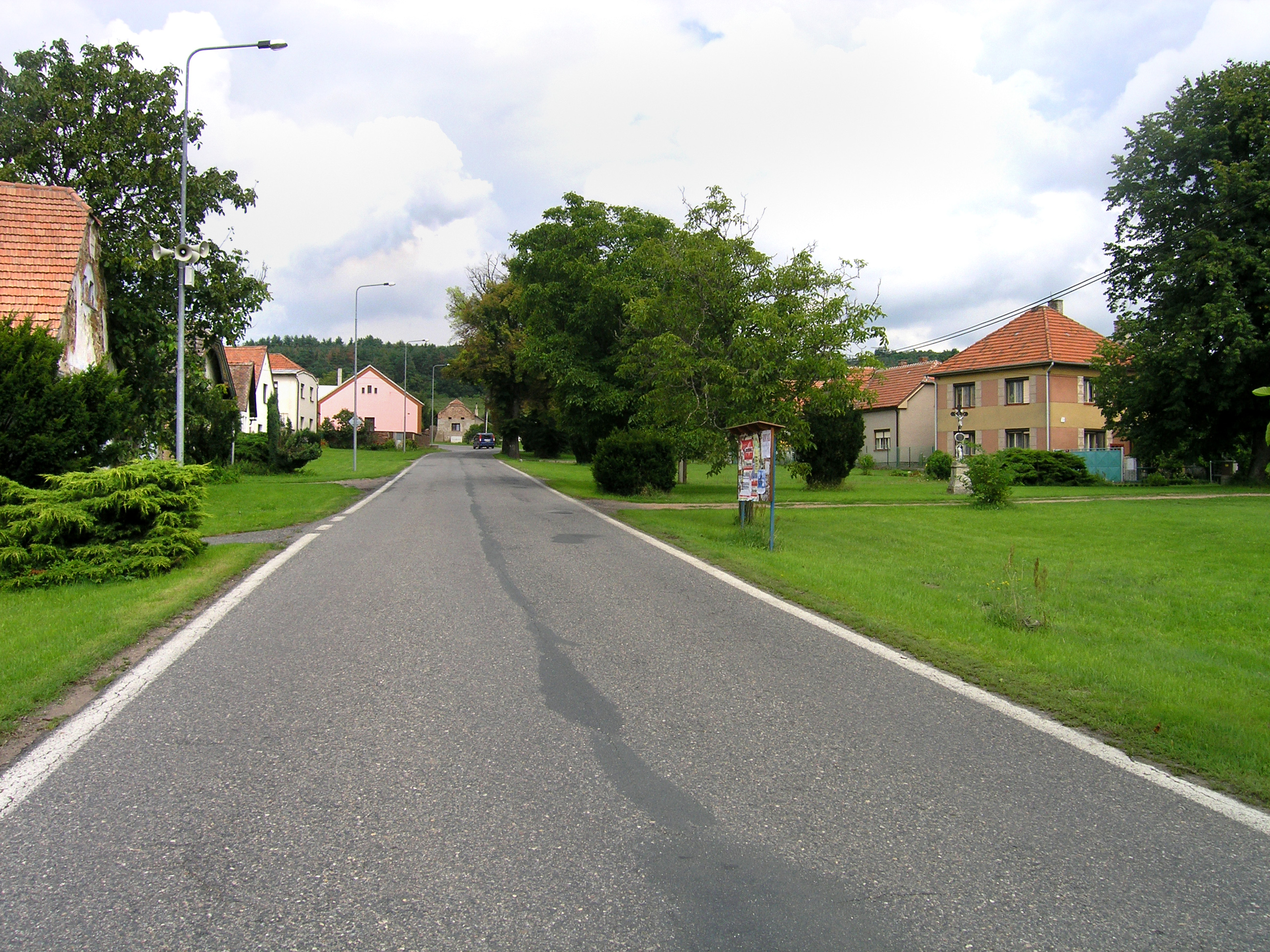 Common in Horušice, Czech Republic